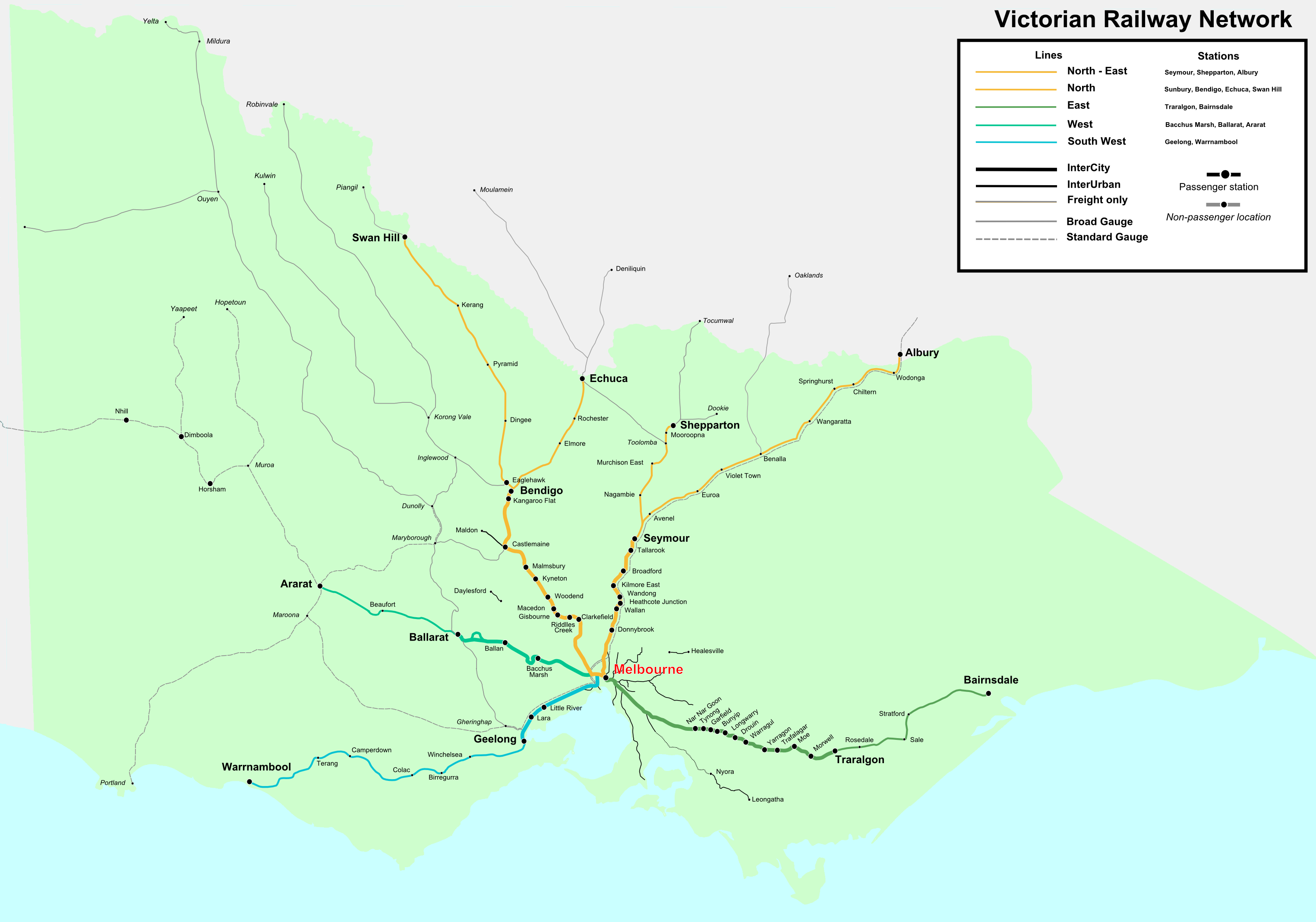 Map of the railway network of Victoria, Australia for 2007. Excludes suburban network as seen in :Image:Melbourne_railways_map.gif. Lines are grouped by V/Line Interurban / Intercity classifications, and region groupings. Freight and tourist railway lines also included. Track gauge is as well.